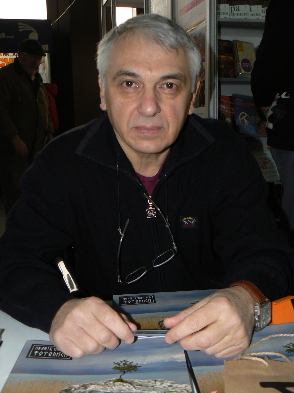 Bulgarian writer Ivan Kulekov